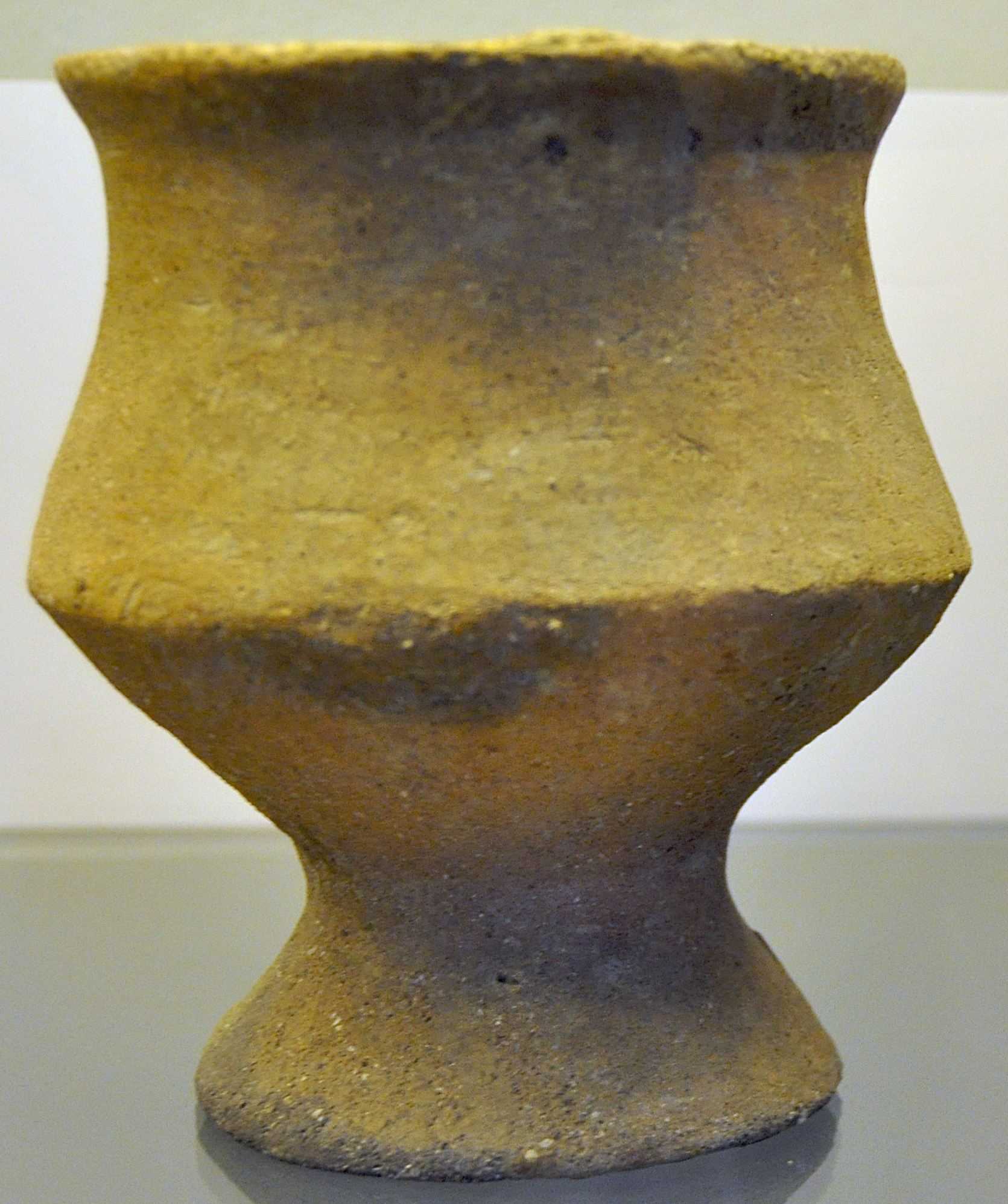 Stem cup (Terracotta), Sa Huynh culture, Collections of the Museum of Vietnamese History, Circa 2,500~2,200 years ago